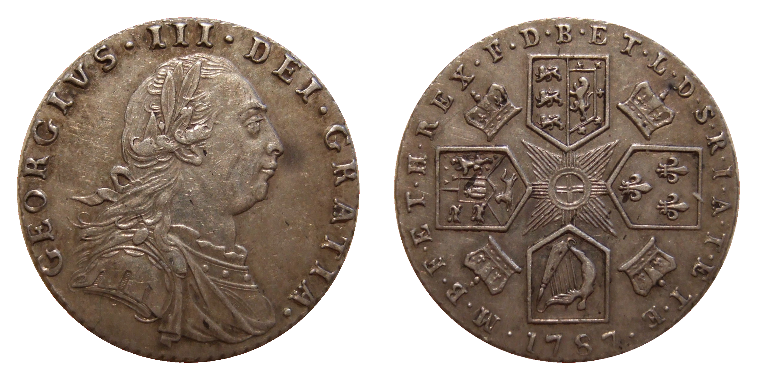 1787 British sixpence